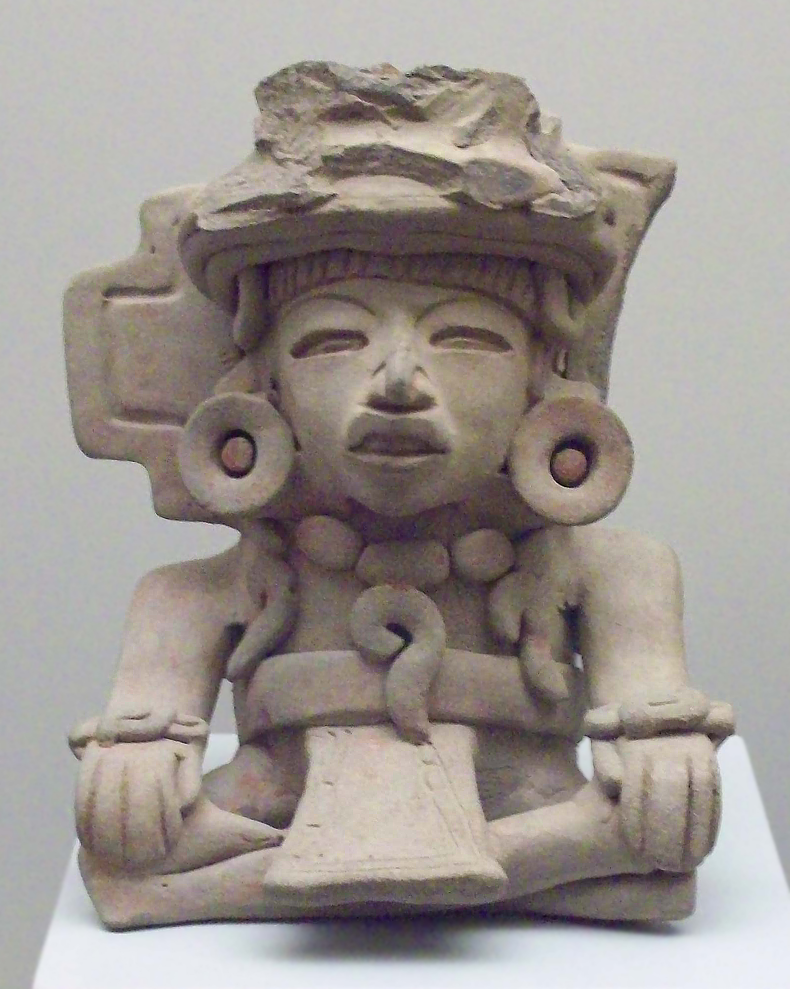 Painted ceramic cinerary urn representing a sitting person. Zapotec Culture (Monte Albán III phase), Early Classic and Middle Classic Periods.